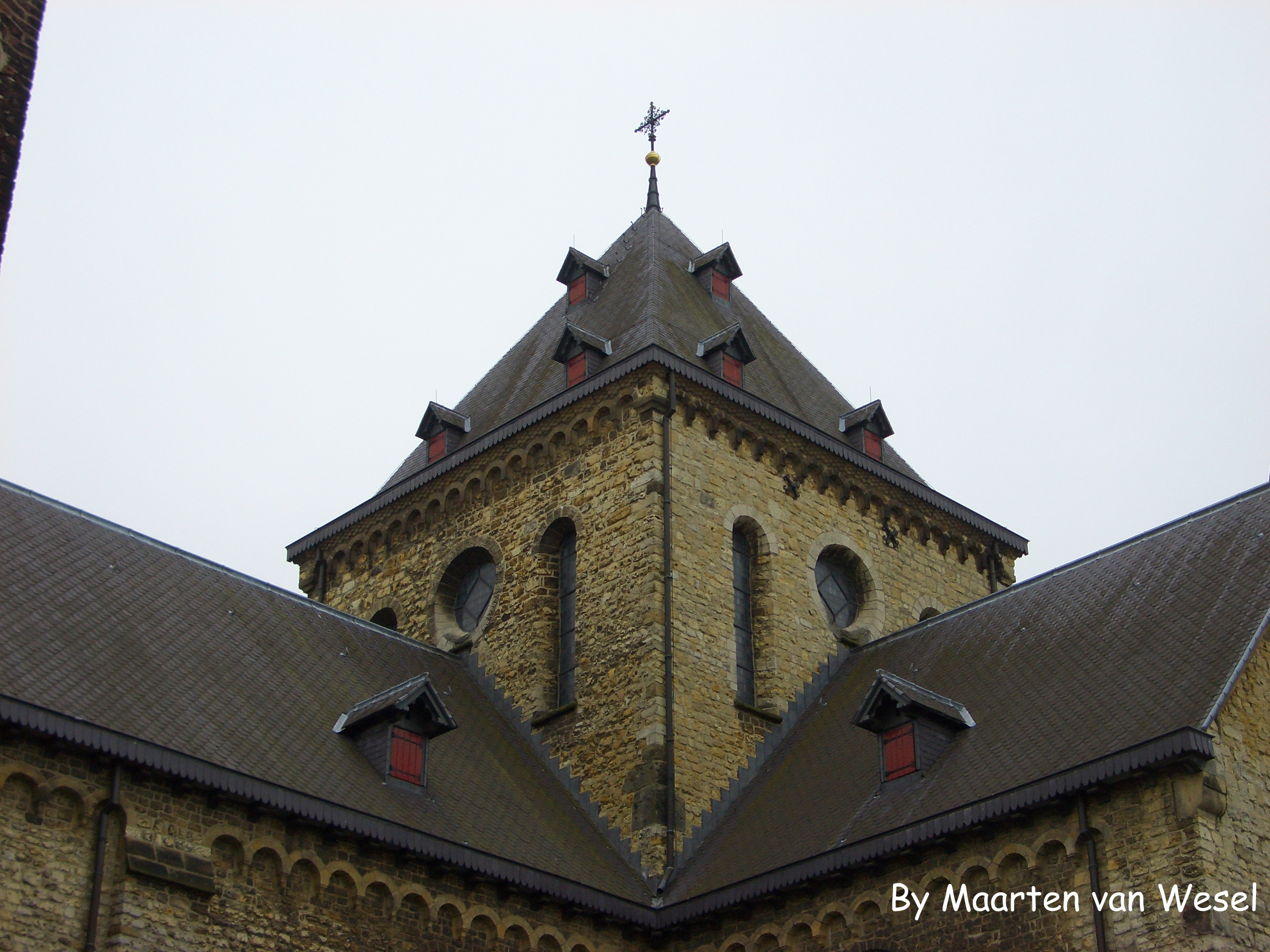 This picture of the Pancratiuskerk was taken by me, Maarten van Wesel, in Heerlen